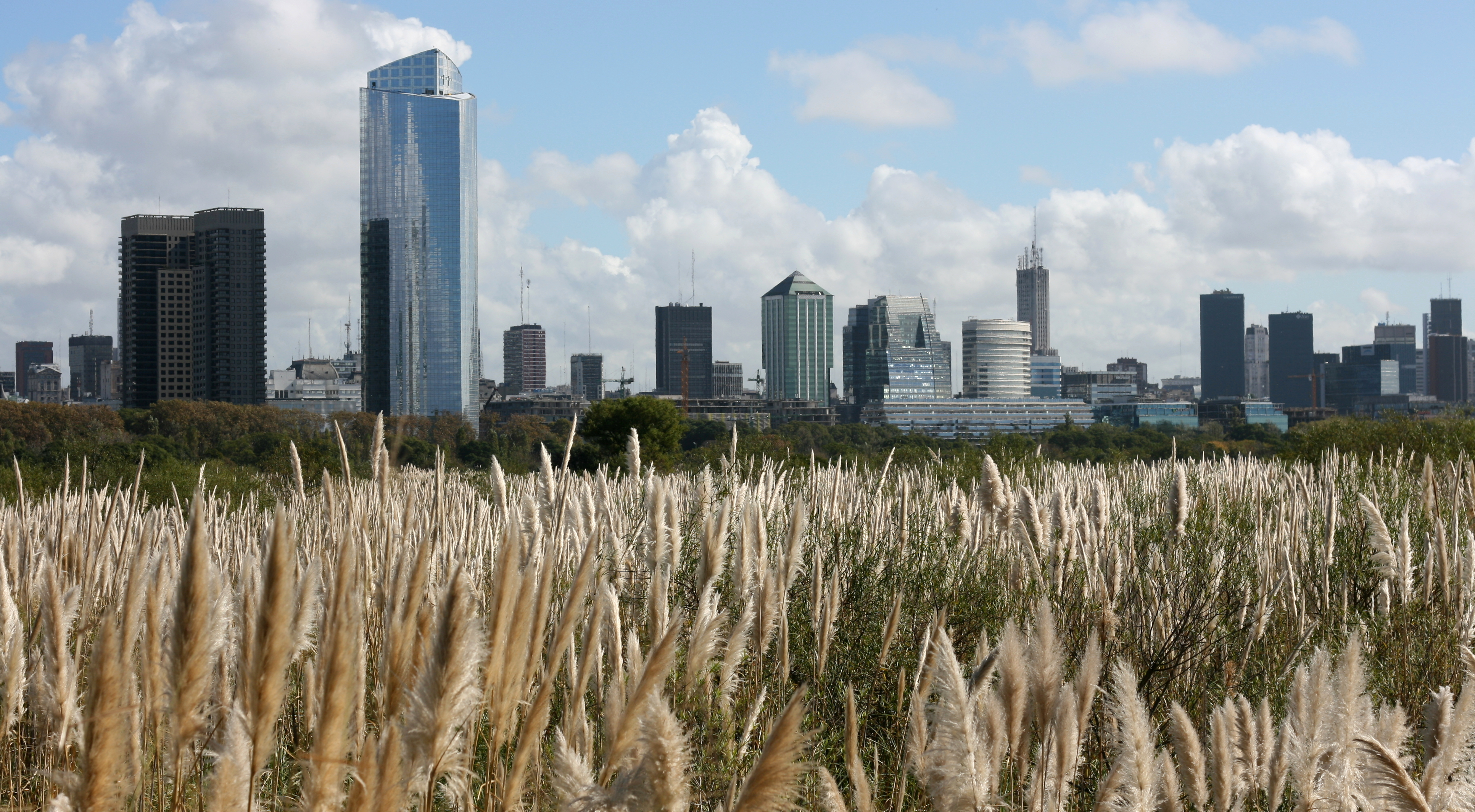 Costanera Sur Natural Reserve (RECS) in Buenos Aires.